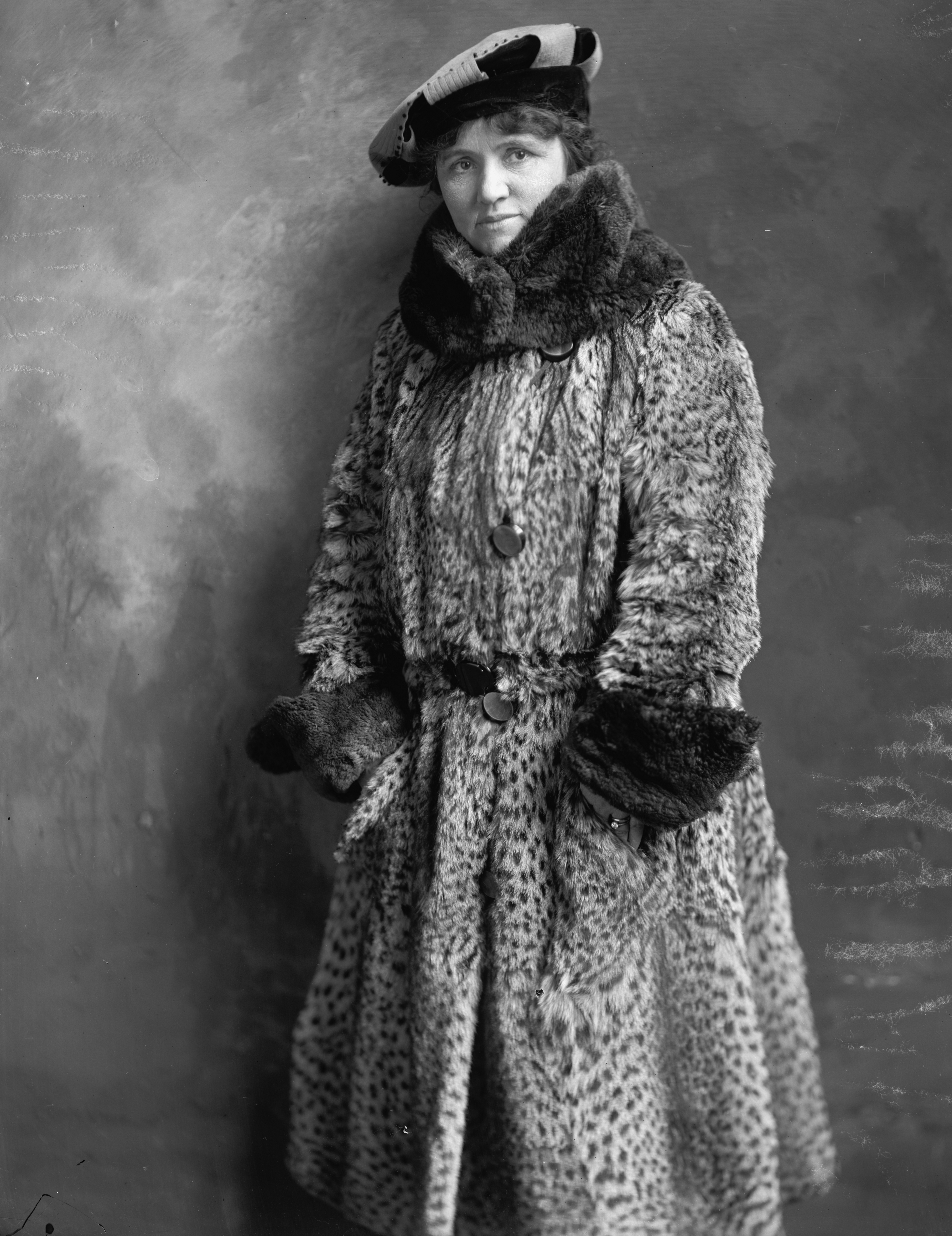 Title: BROWN, F.M., MRS. Abstract/medium: 1 negative : glass ; 8 x 10 in. or smaller